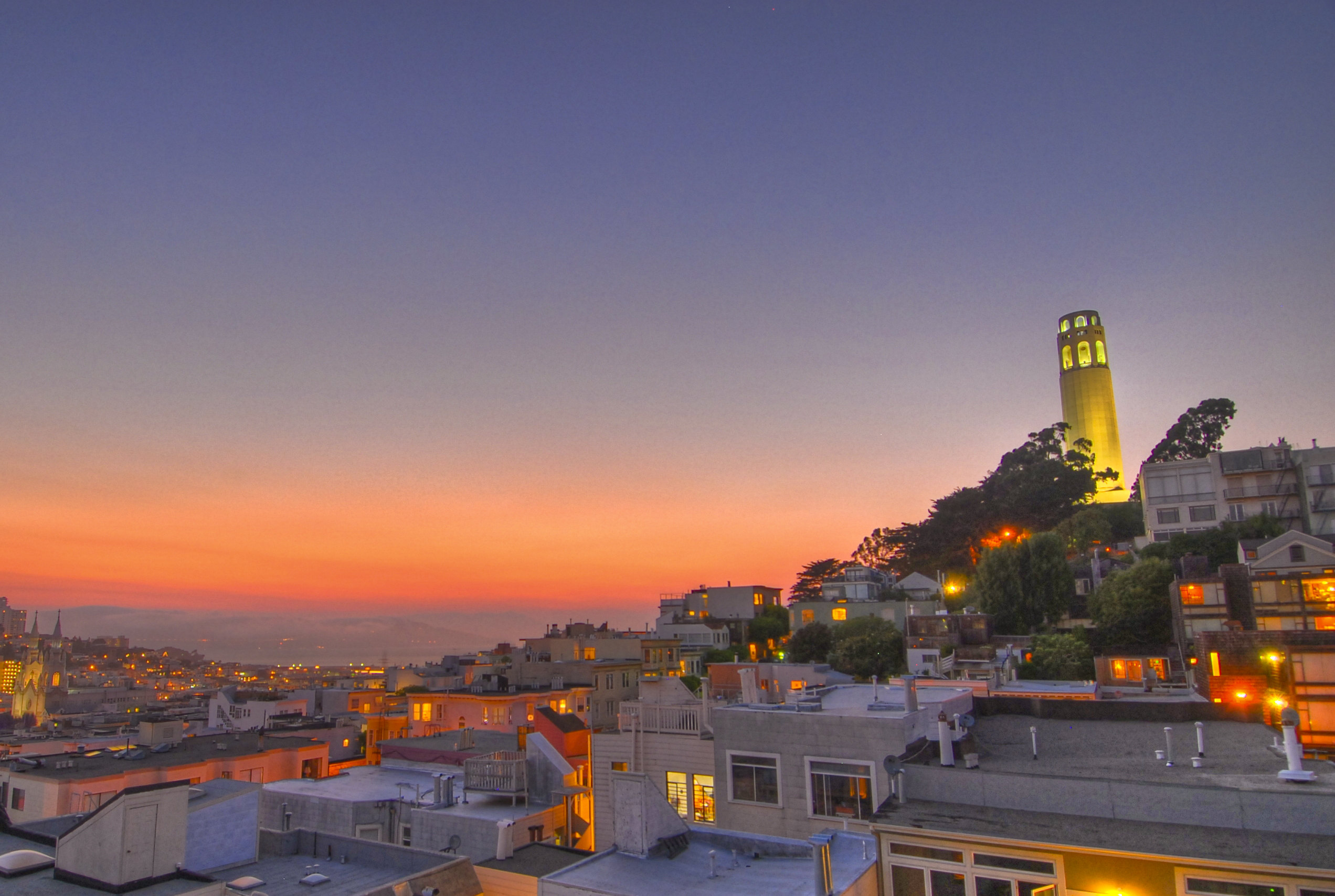 A picture of Coit Tower at sun set